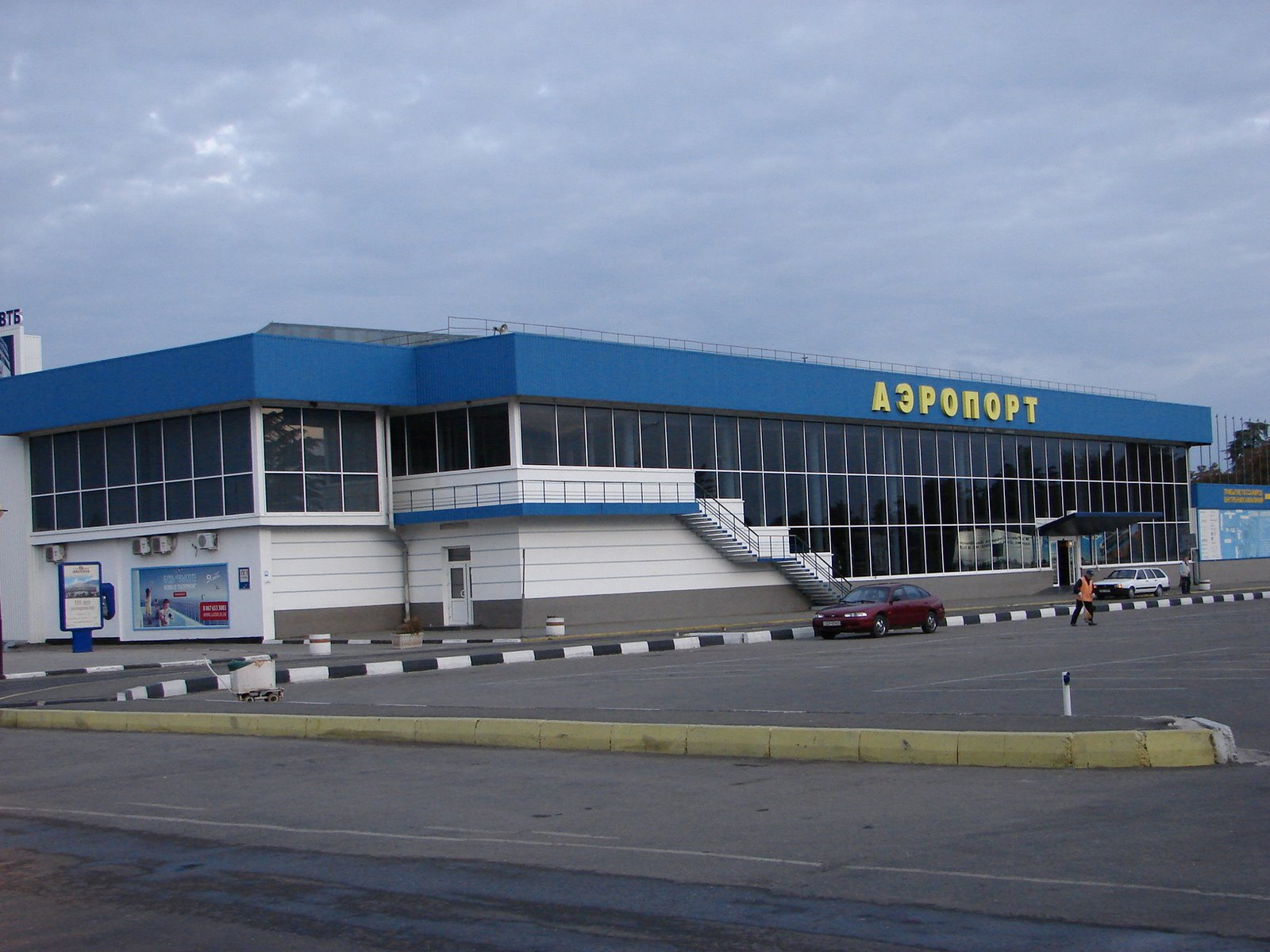 Simferopol International Airport